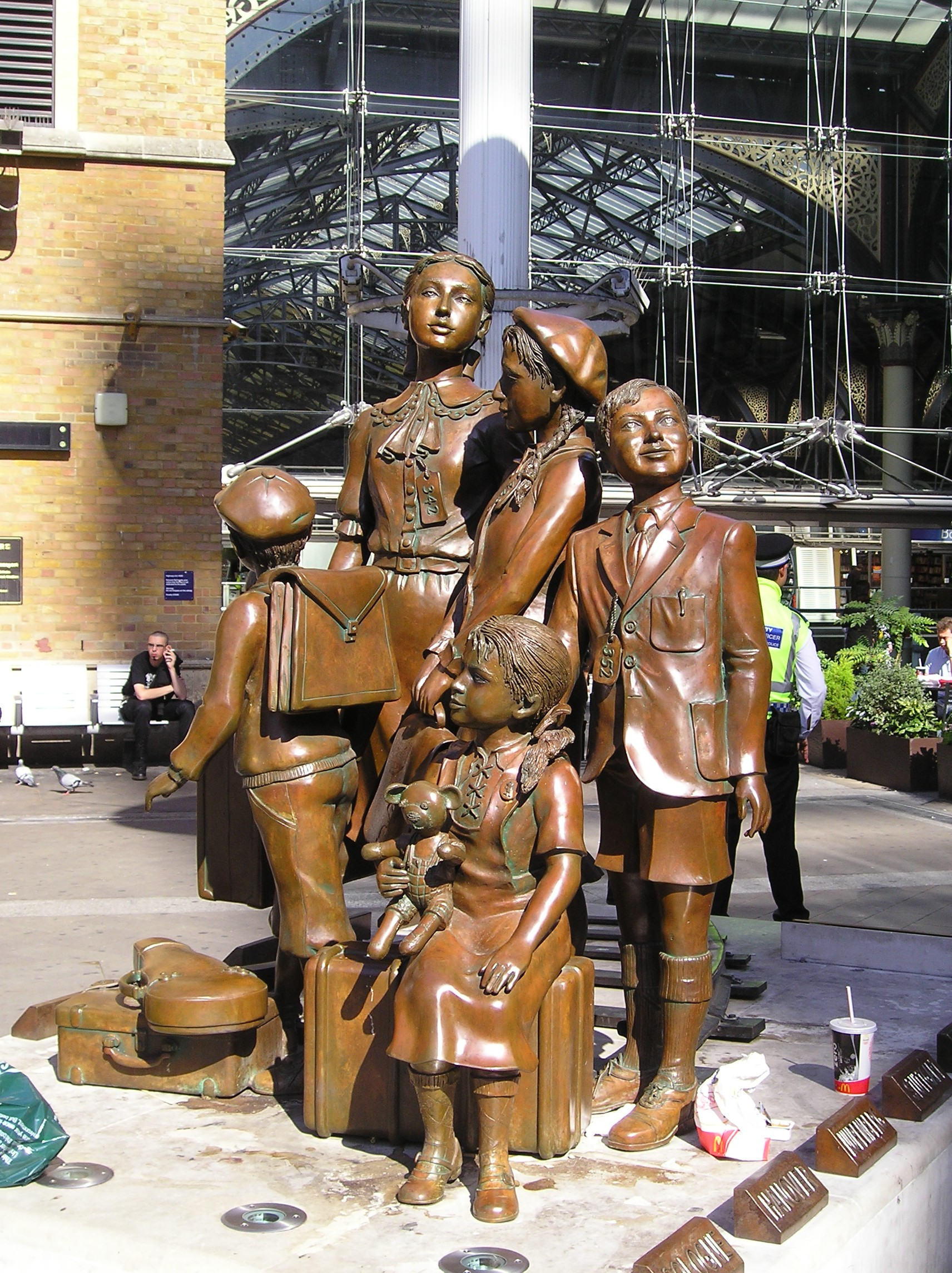 This photo was taken by me, Paul Dean (StoneColdCrazy), in September 2007, and shows the Kindertransport memorial, by Frank Meisler, which stands outside Liverpool Street Station.